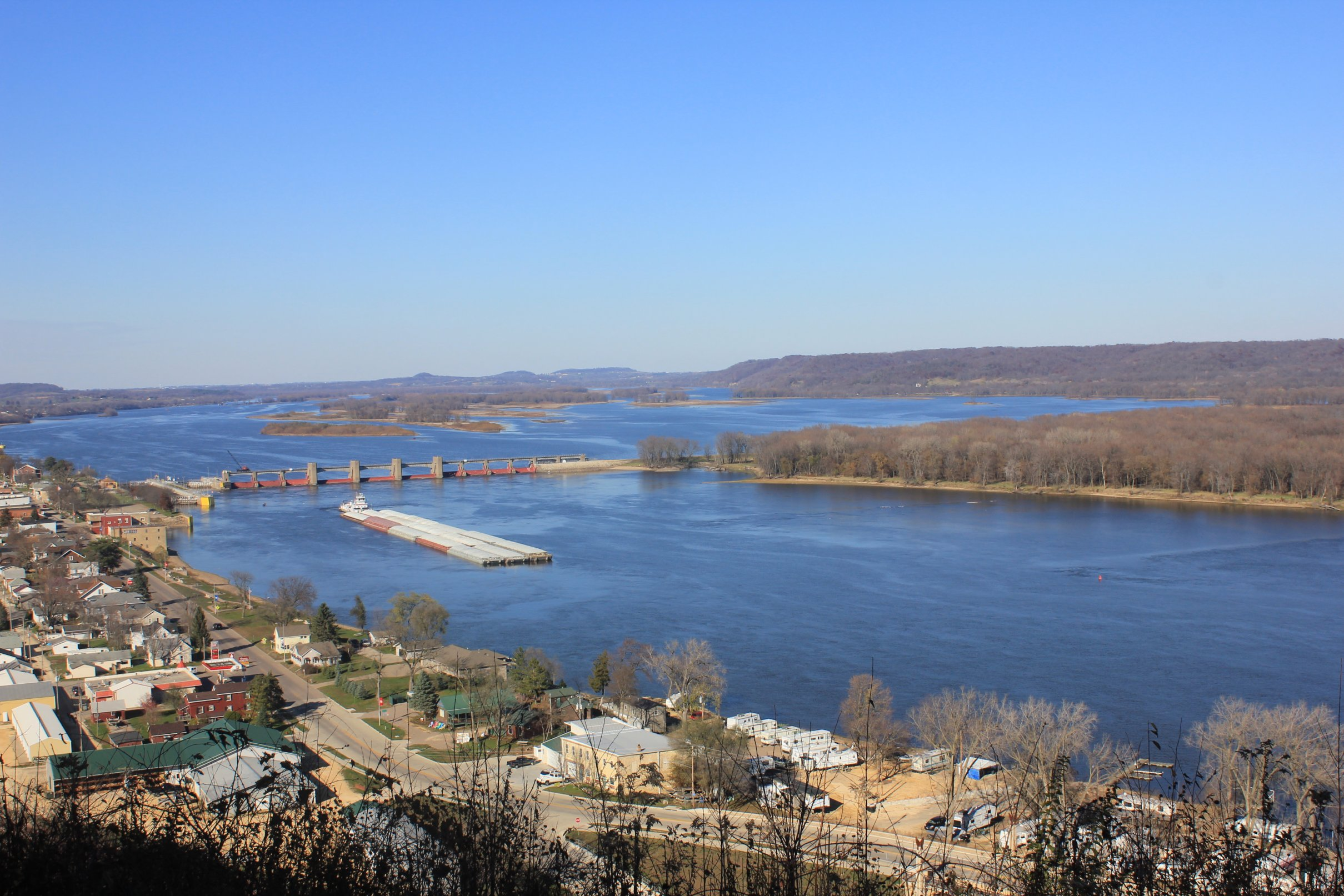 Ship coming down the Mississippi River from Bellevue State Park with the town of Bellevue in sight